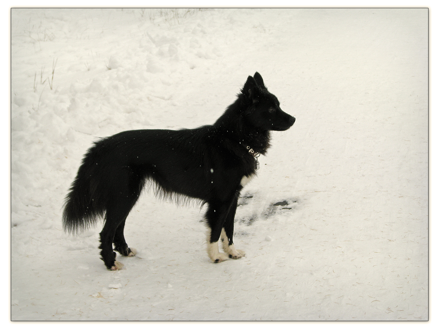 Фото Ненецкая лайка (оленегонный шпиц)